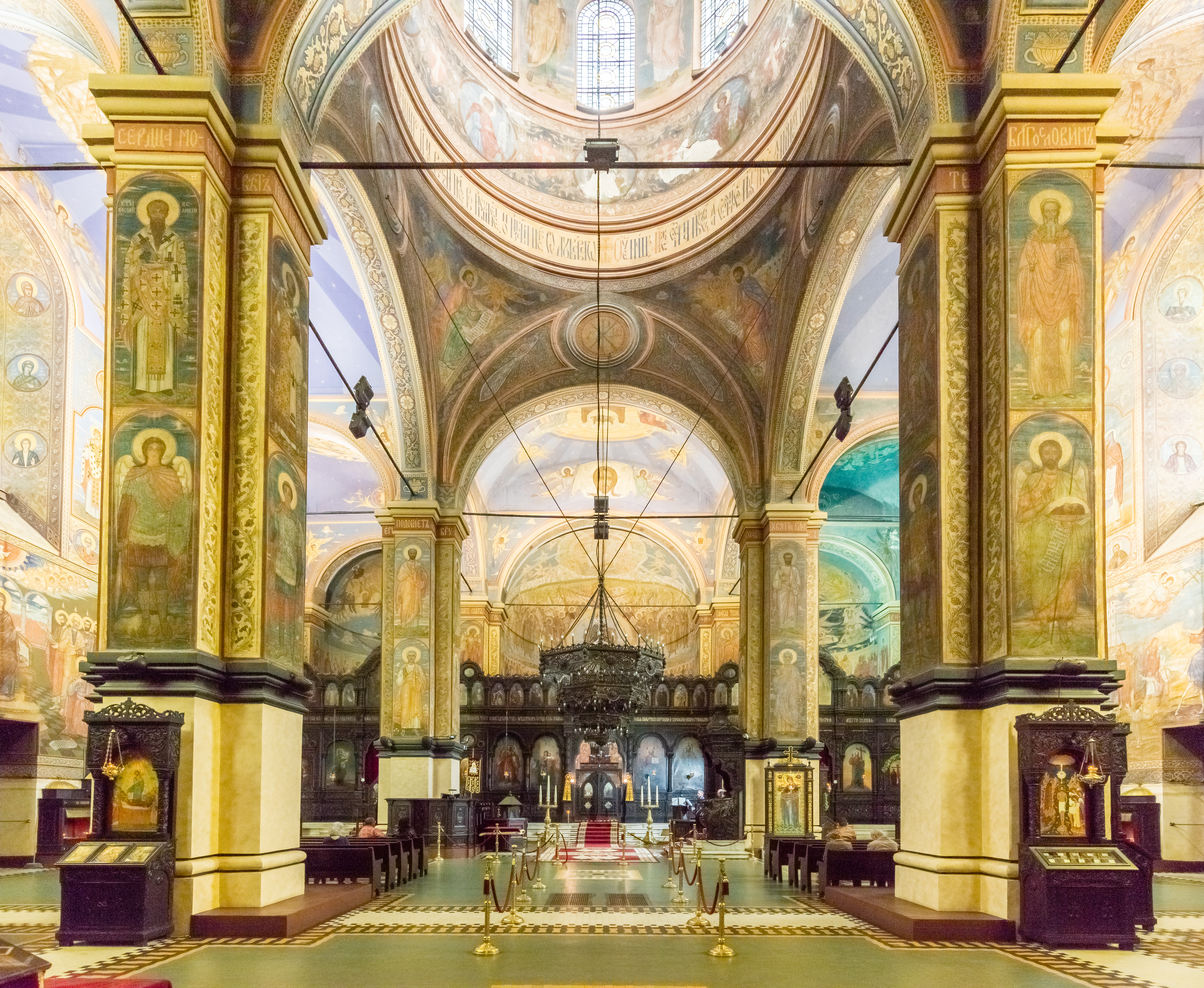 Dormition of the Theotokos Cathedral, Varna, Bulgaria